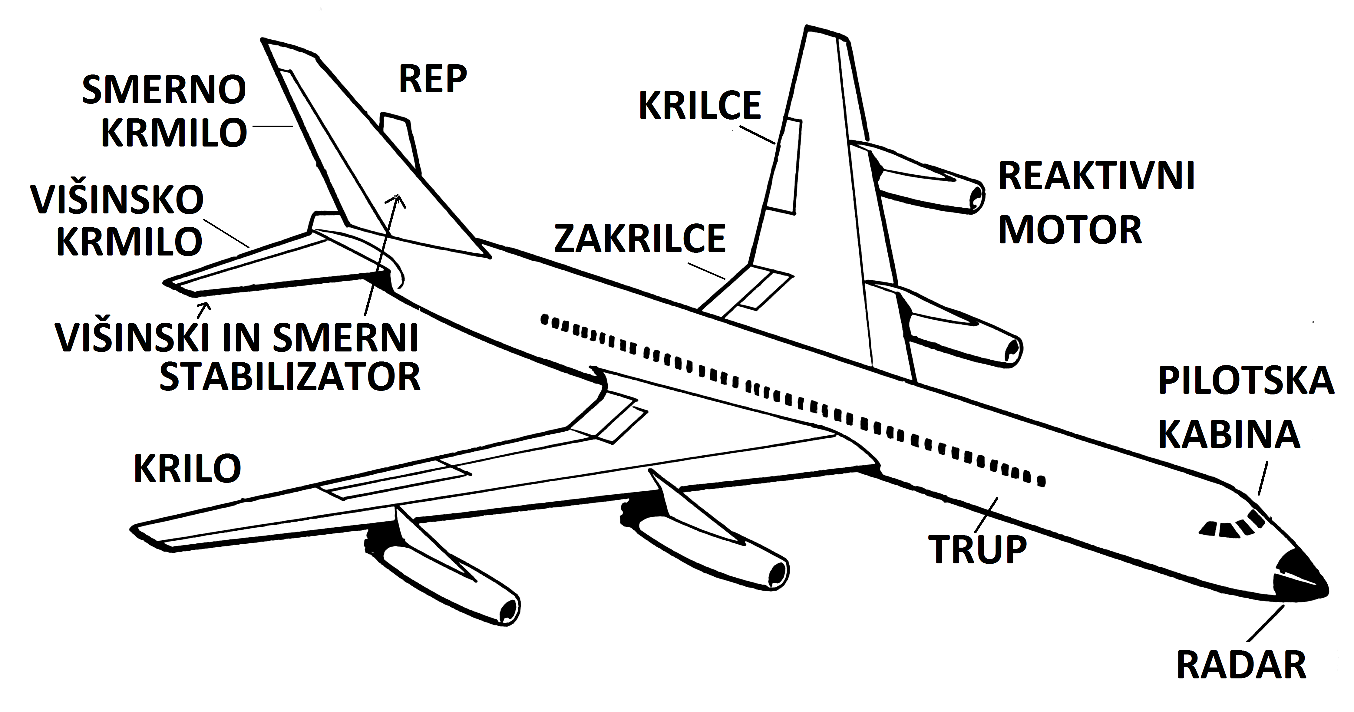 airplane main parts; based on Glavni sestavni deli letala